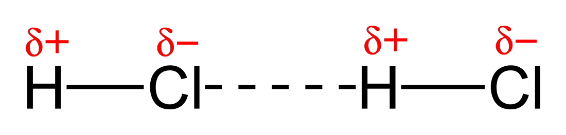 Dipole-dipole interaction between two hydrogen chloride (HCl) molecules